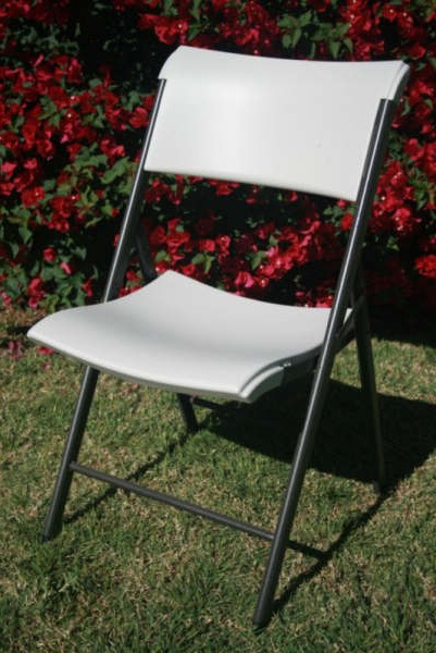 Lifetime Products folding chair